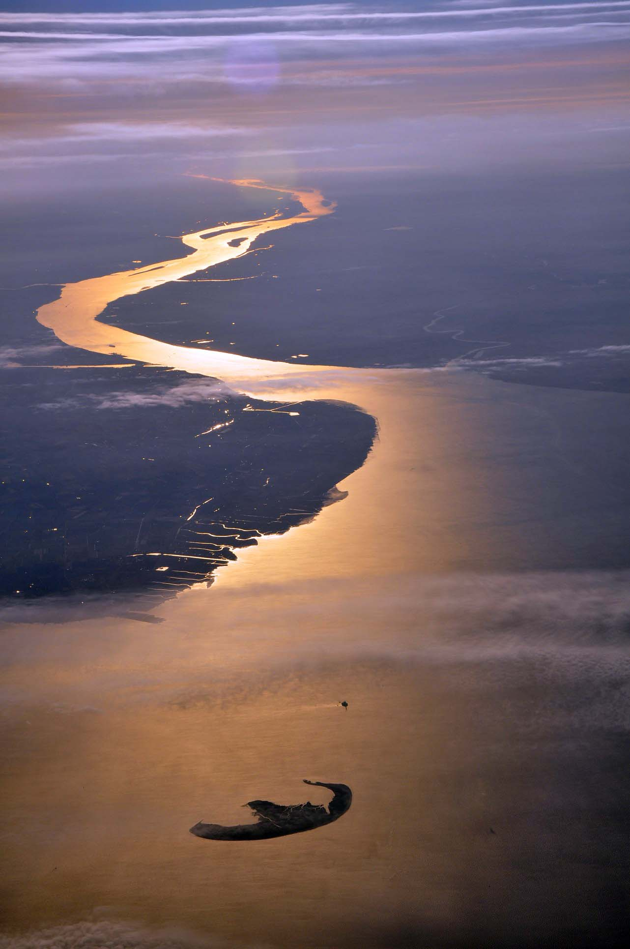 Aerial view of the German island Trischen in the North Sea, just beyond the mouth of the river Elbe. Viewing direction is toward the SE.